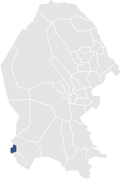 Map of the Sixth Federal Electoral District of the State of Coahuila, México.